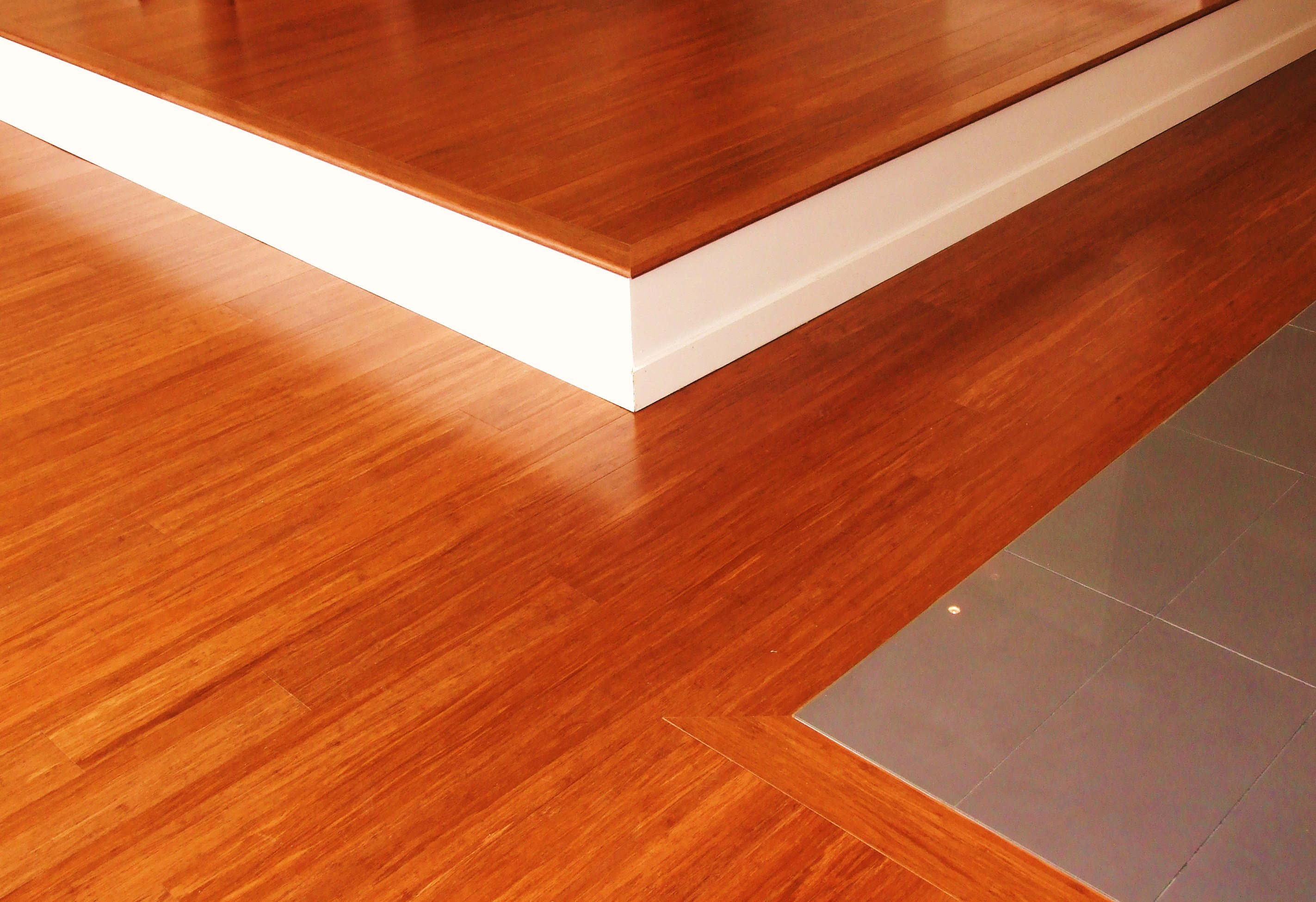 Bamboo Flooring made from reconstructed strands can be worked in a similar way to solid wood. This can be seen by mitred ramp down to the tiles.